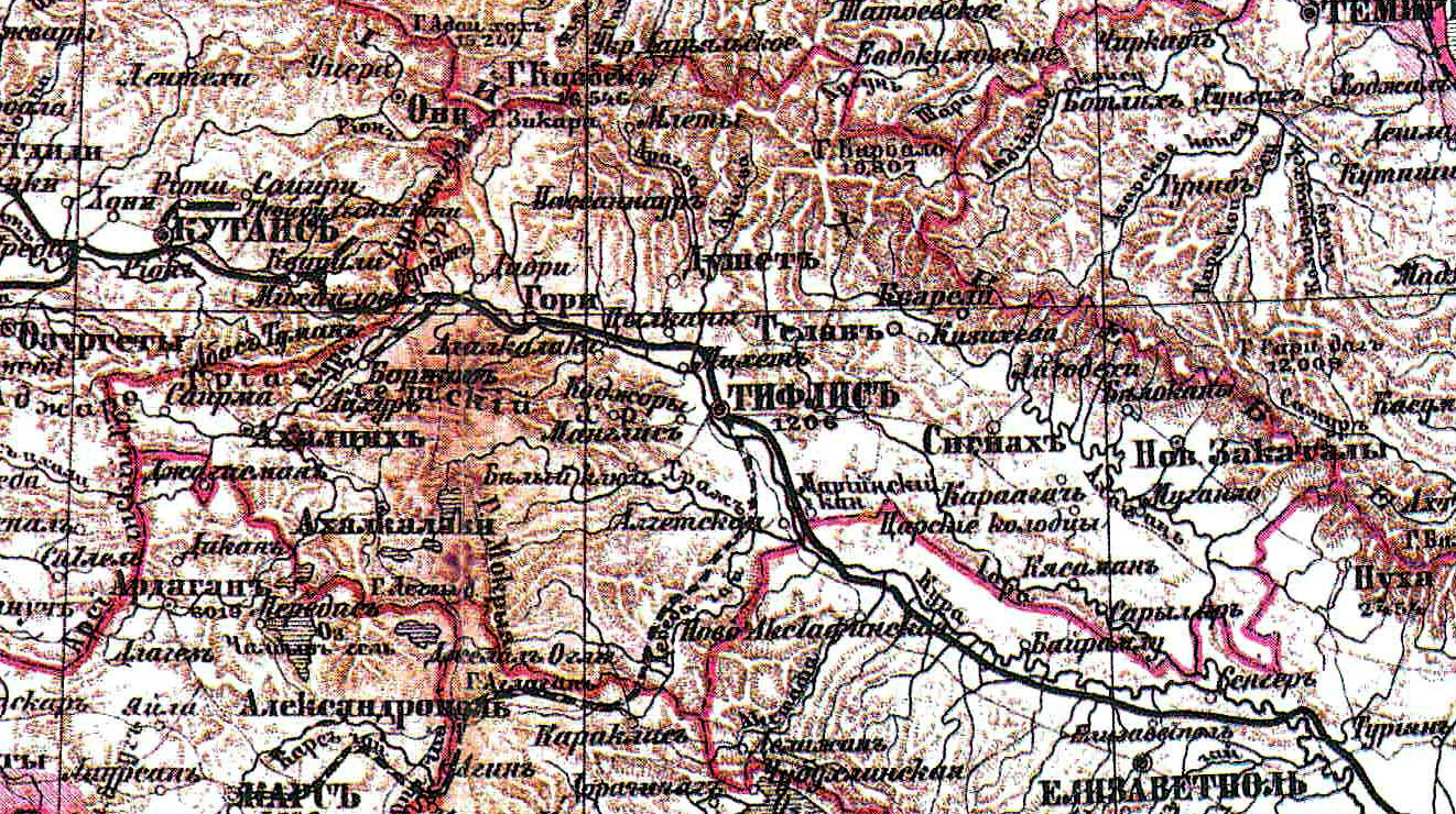 map of Tiflis guberniya of Russian Empire from the Brockhaus and Efron encyclopaedia (crop from a map of Caucasus)